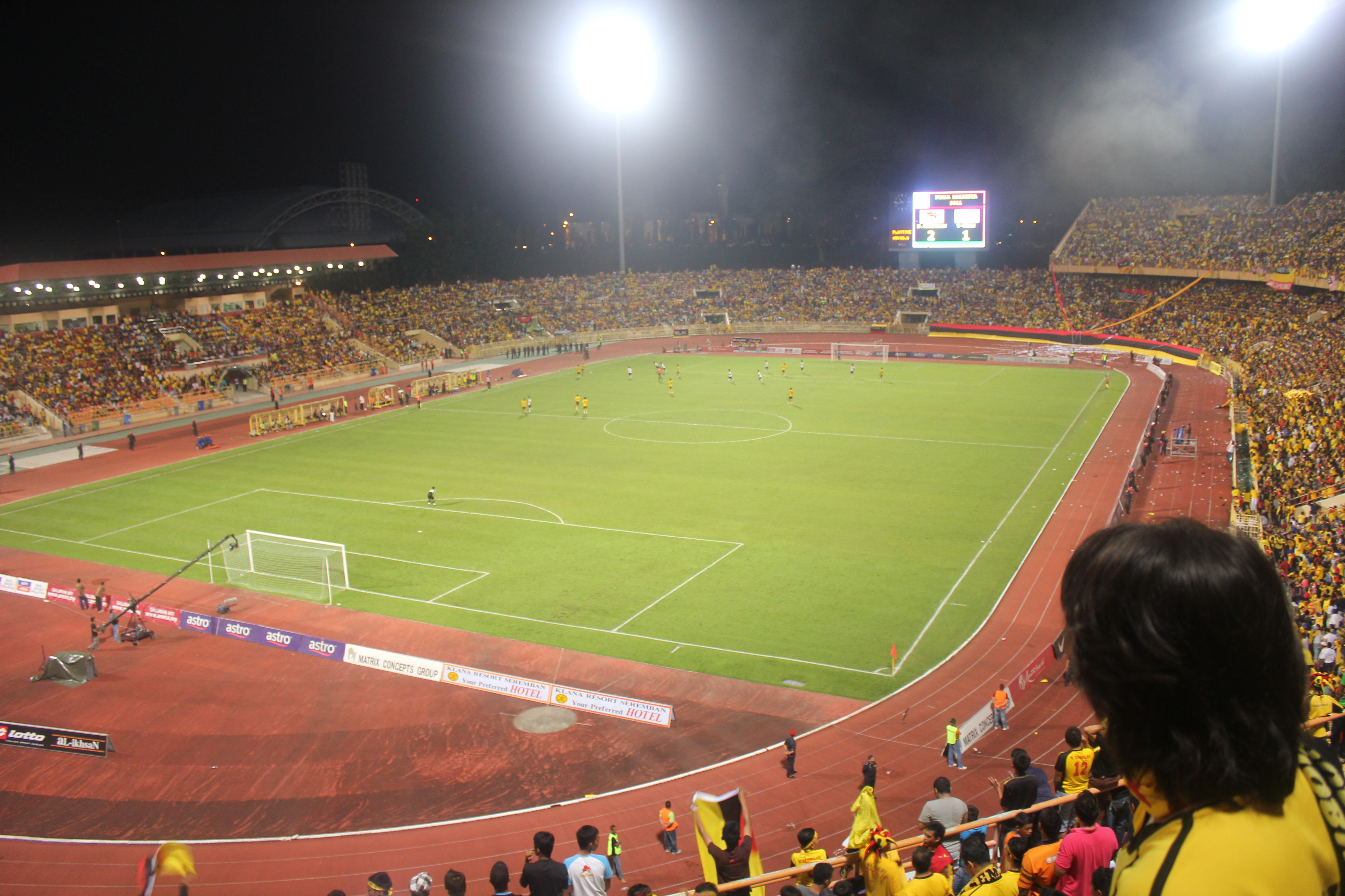 A football match being held at Stadium Tuanku Abdul Rahman, Paroi in Seremban, Negeri Sembilan, Malaysia.